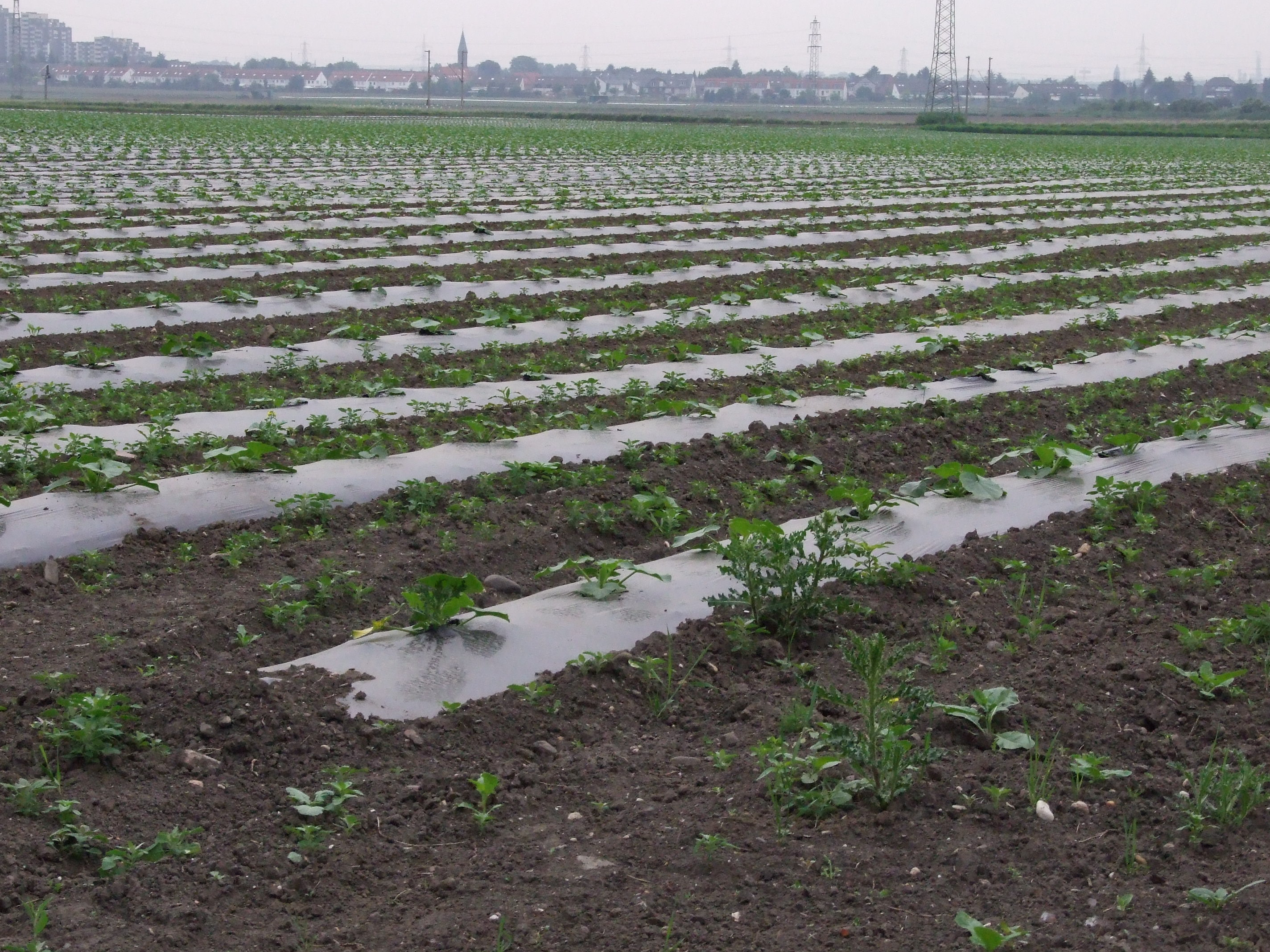 planted vegetable field with mulch film